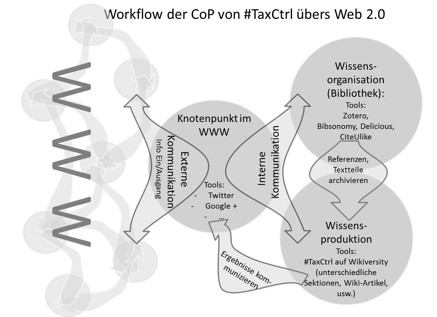 TaxCtrl